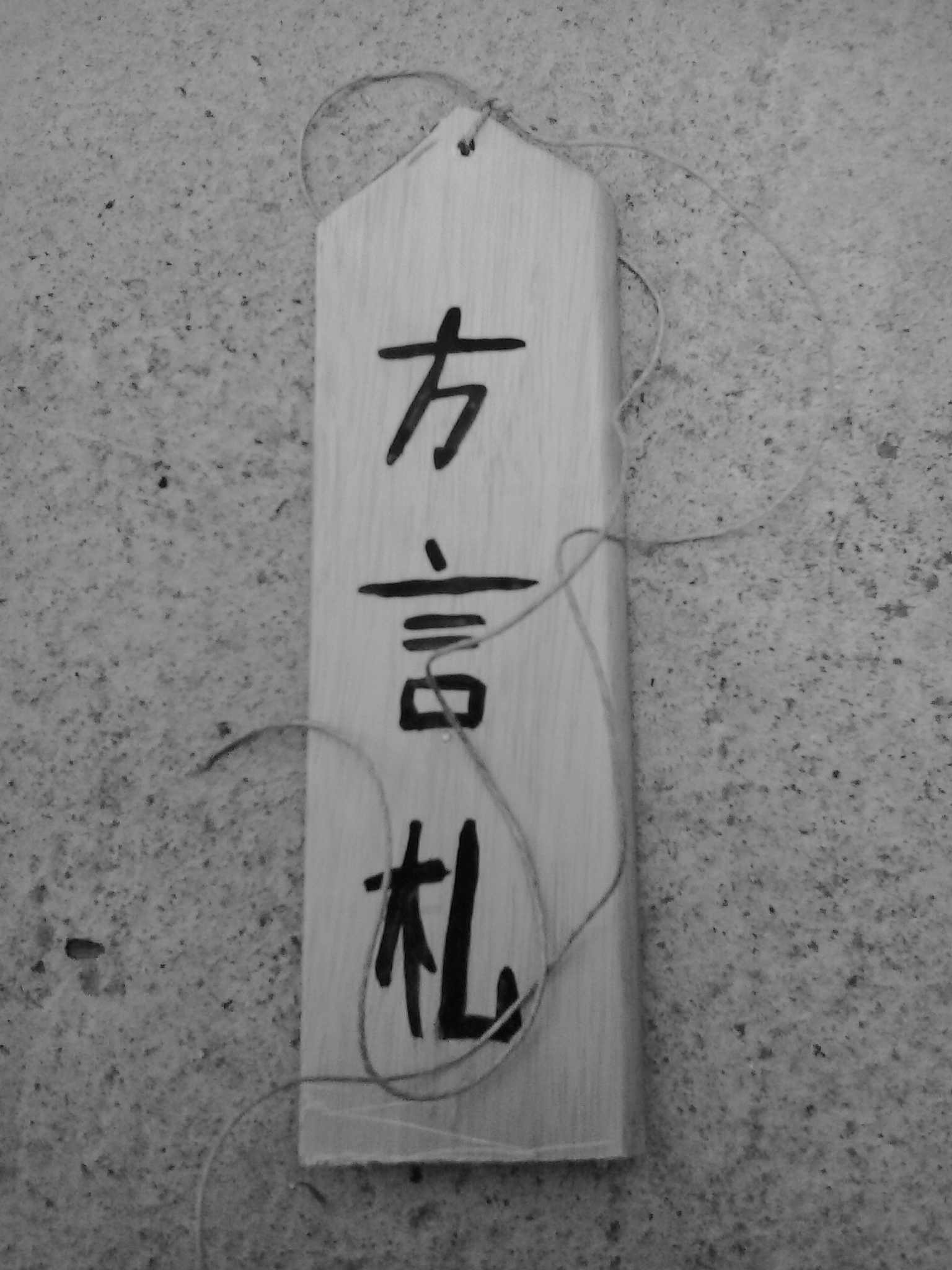 Example of Japanese dialect card